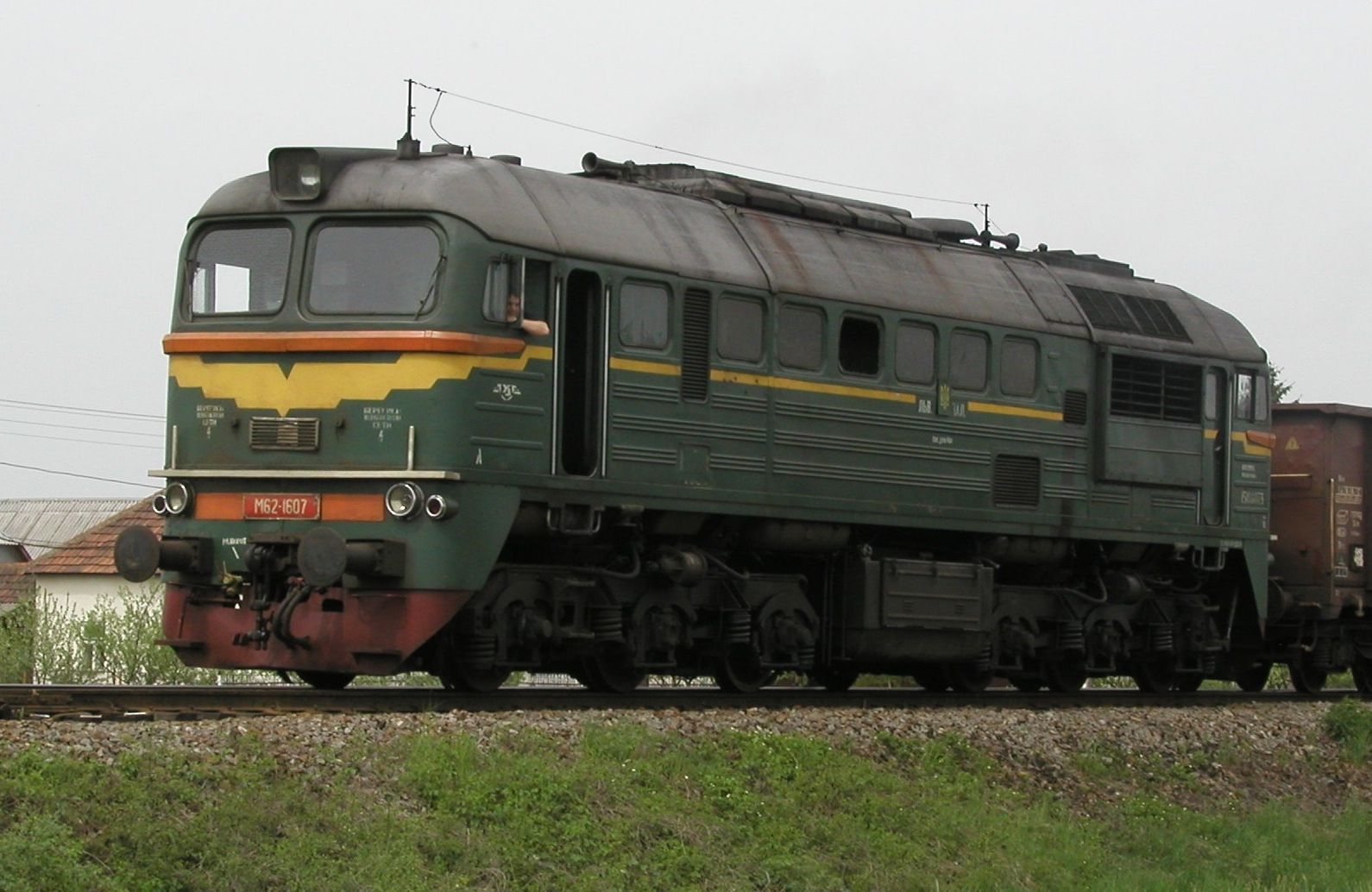 M62-1607 Diesel locomotive of Lviv Railways in Batrad village (Trancarpathian region, Ukraine)